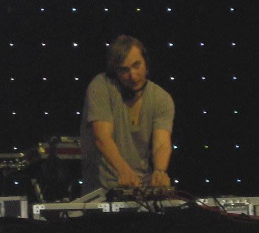 David Guetta performing in the Sahara tent at the 2007 Coachella Valley Music and Arts Festival.